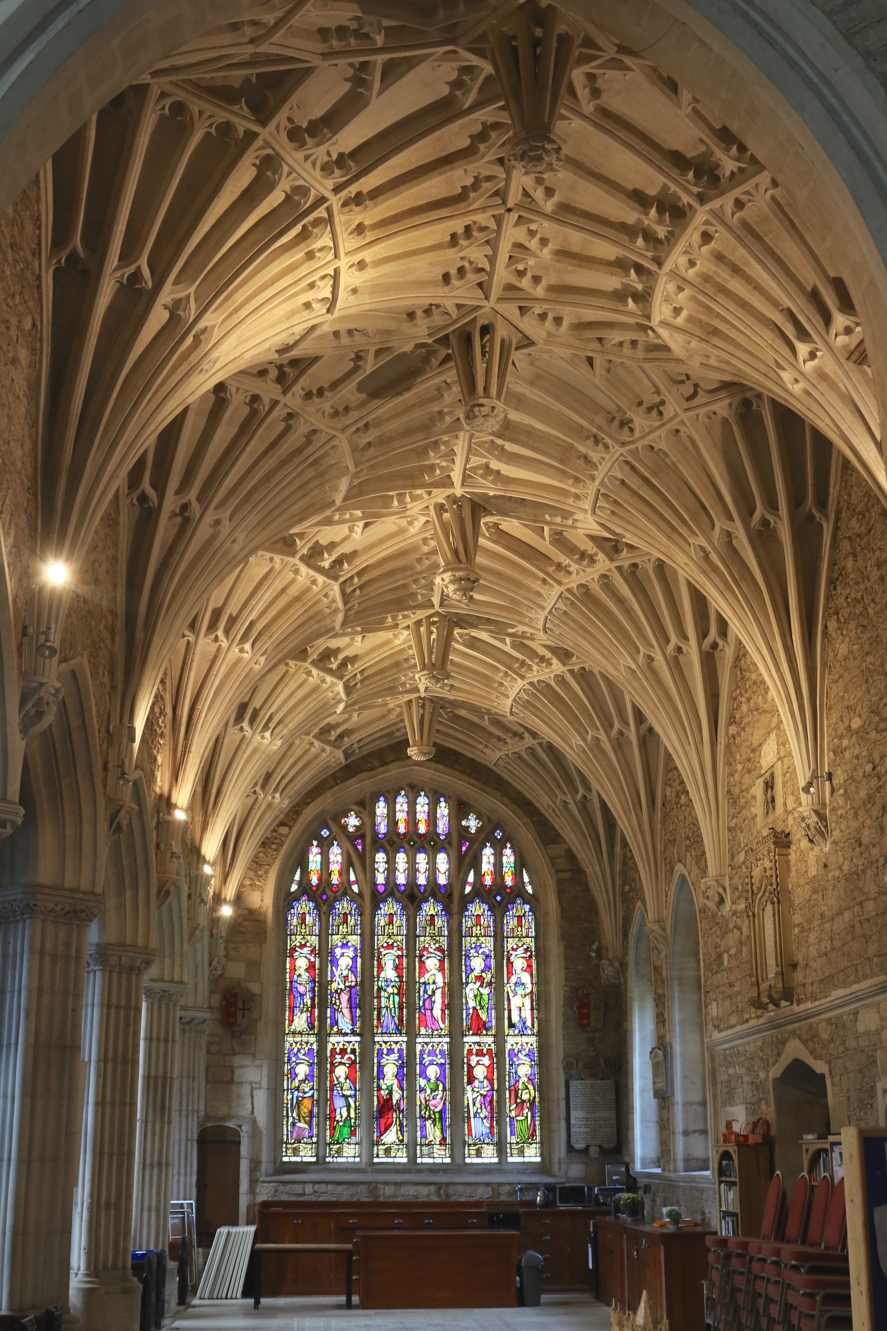 The north nave aisle